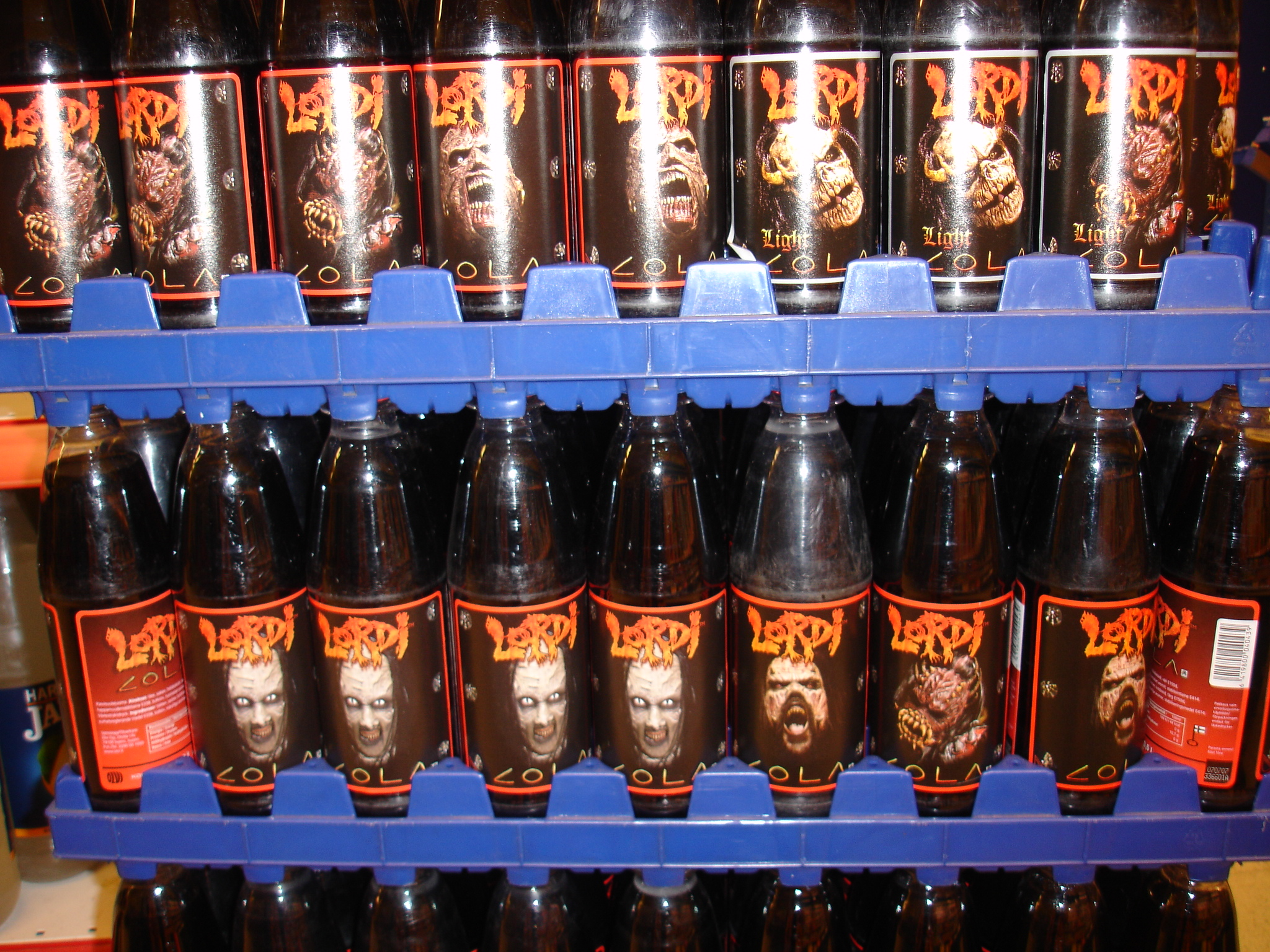 Lordi Cola in a supermarket in Tampere, Finland.